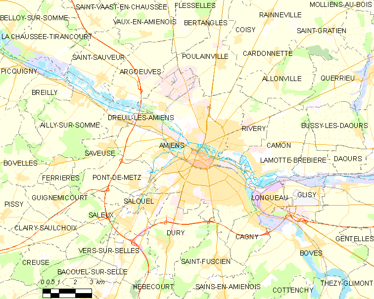 Map of French municipality Amiens